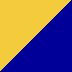 Gold and Blue, the official and traditional colors of Central Philippine University